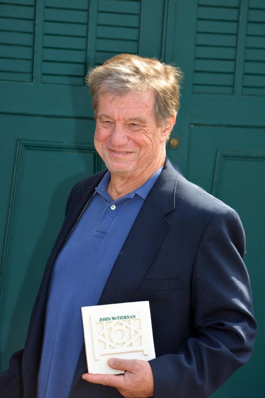 John McTiernan at the Deauville Film Festival